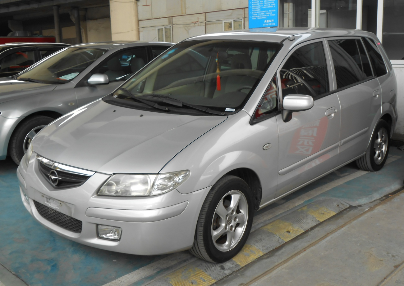 Haima Freema photographed in a second-hand car market in Shanghai, China.